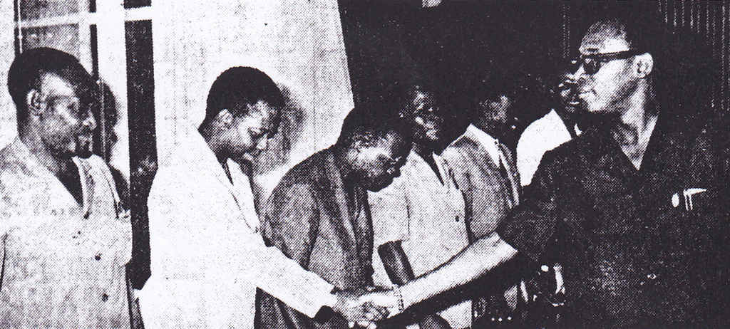 Mobutu greets members of the political bureau of the MPR near Mount Stanley